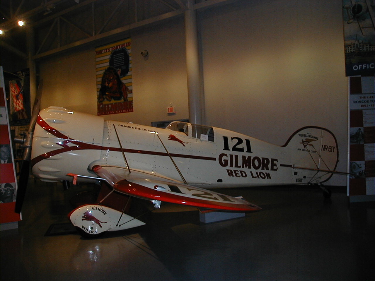 Wedell Williams Model 44 built for Roscoe Turner